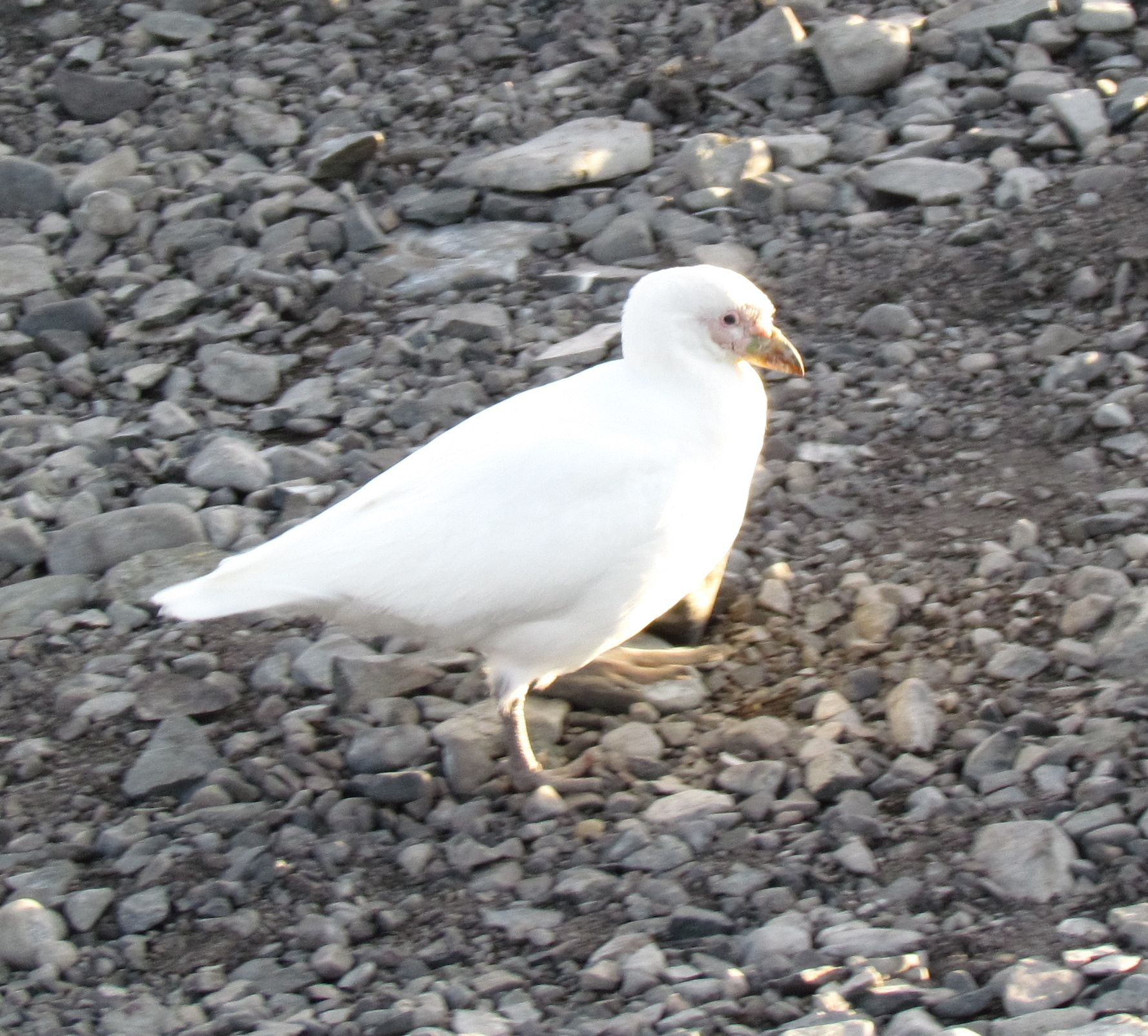 Chionis Alba at Esperanza Base, Antarctic Peninsula